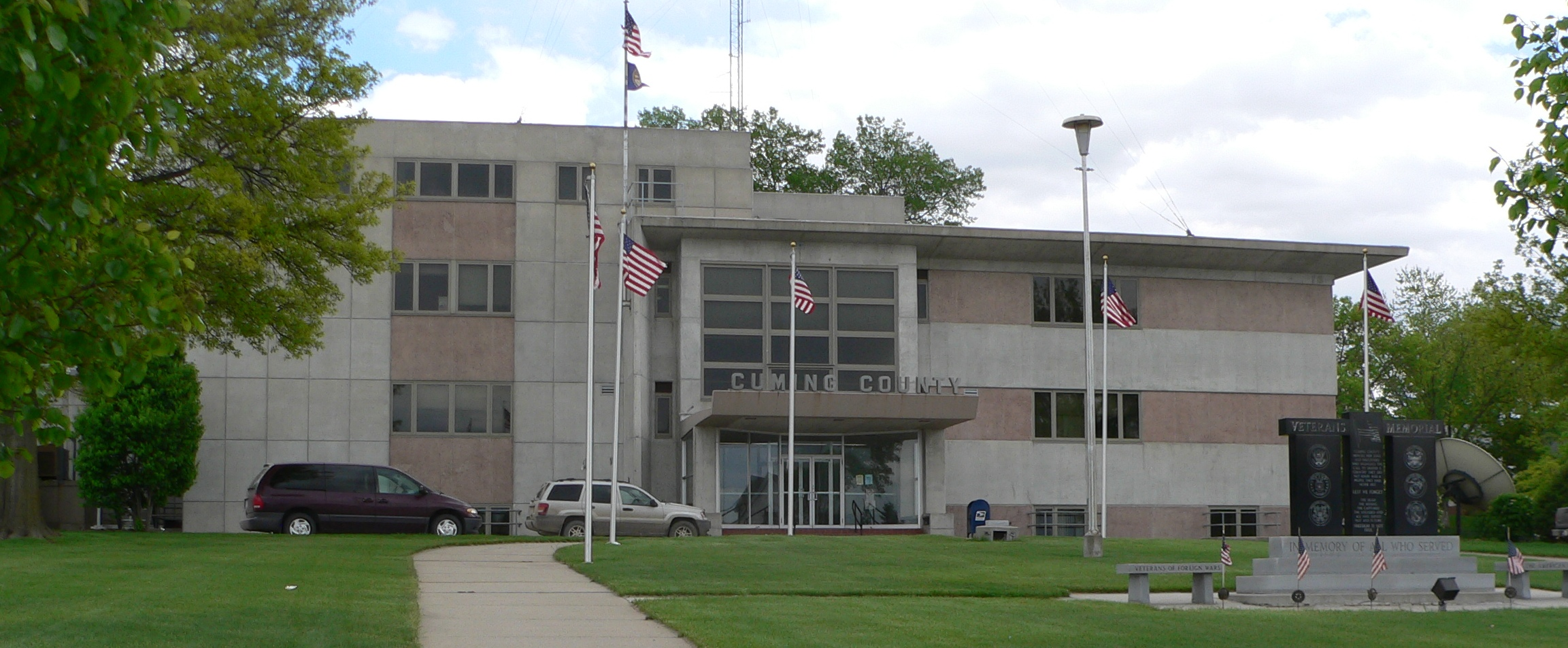 Cuming County Courthouse in West Point, Nebraska; seen from the west. The building was constructed in 1954.